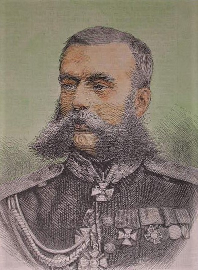 Mikhail Skobelev